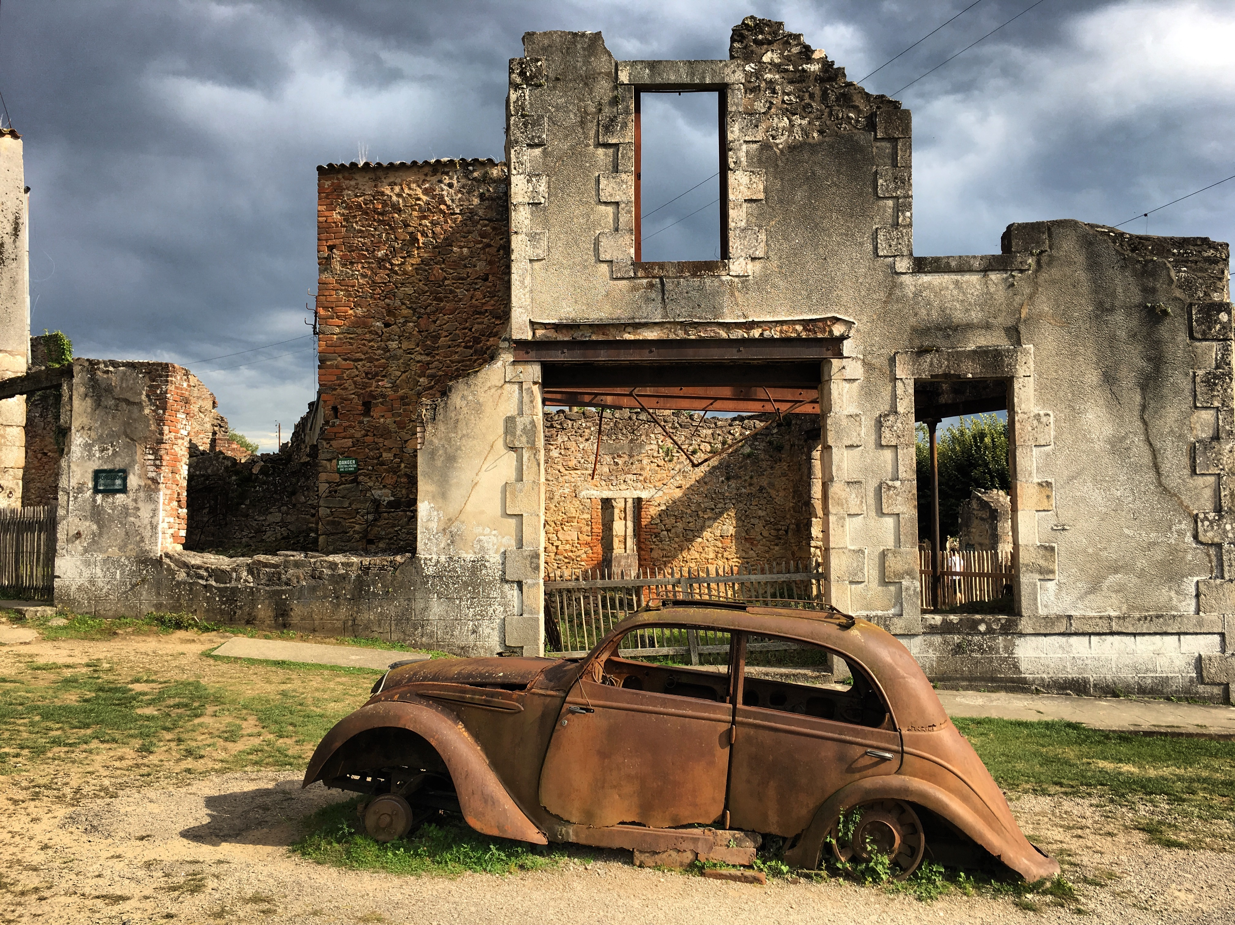 Oradour-sur-Glane is the name of a village in Limousin, nearby Limoges, where 642 of its inhabitants, including women and children, were massacred by a German Waffen-SS company on 10 June 1944.